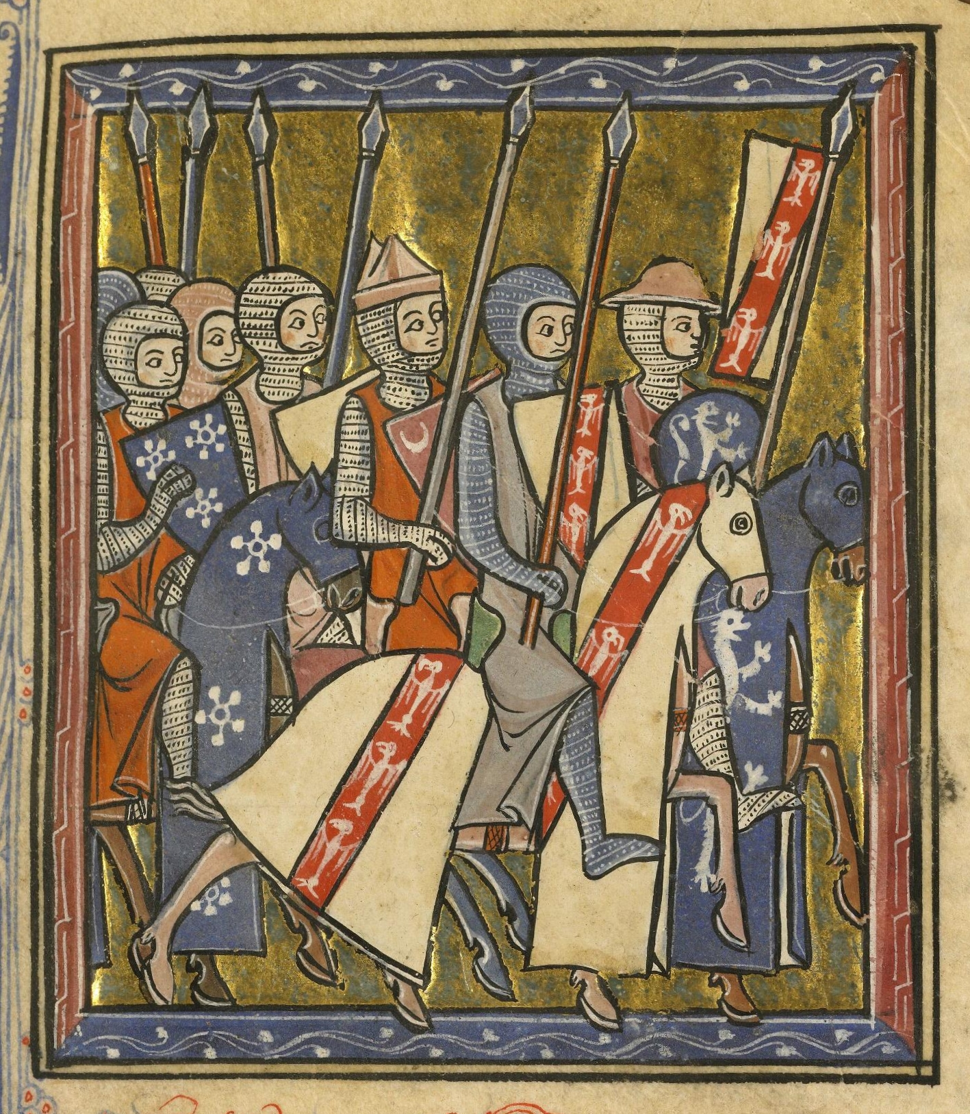 Miniature from Boulogne-sur-mer - Bibliothèque Municipale - Ms 142 Guillaume de Tyr, Histoire d'Outremer, Saint-Jean d’Acre (manuscript donated in 1698 by Melchior Philibert to the Jesuit College in Lyon). Godfrey of Bouillon and Adhemar bishop of Puy ride with their men to the Holy Land.